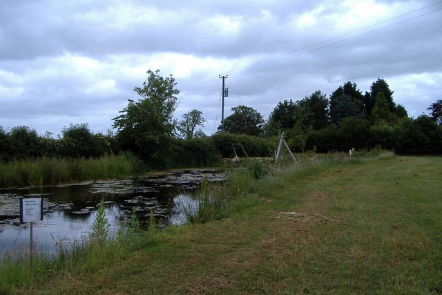 Pond restored as a nature reserve. Small ponds in this field at Kinsey Heath, Audlem, have been restored to make a small informal nature reserve. The tripod supports the "weatherstone", which gives an accurate weather forecast ... if wet = raining, if covered in white powder = snowing, etc.